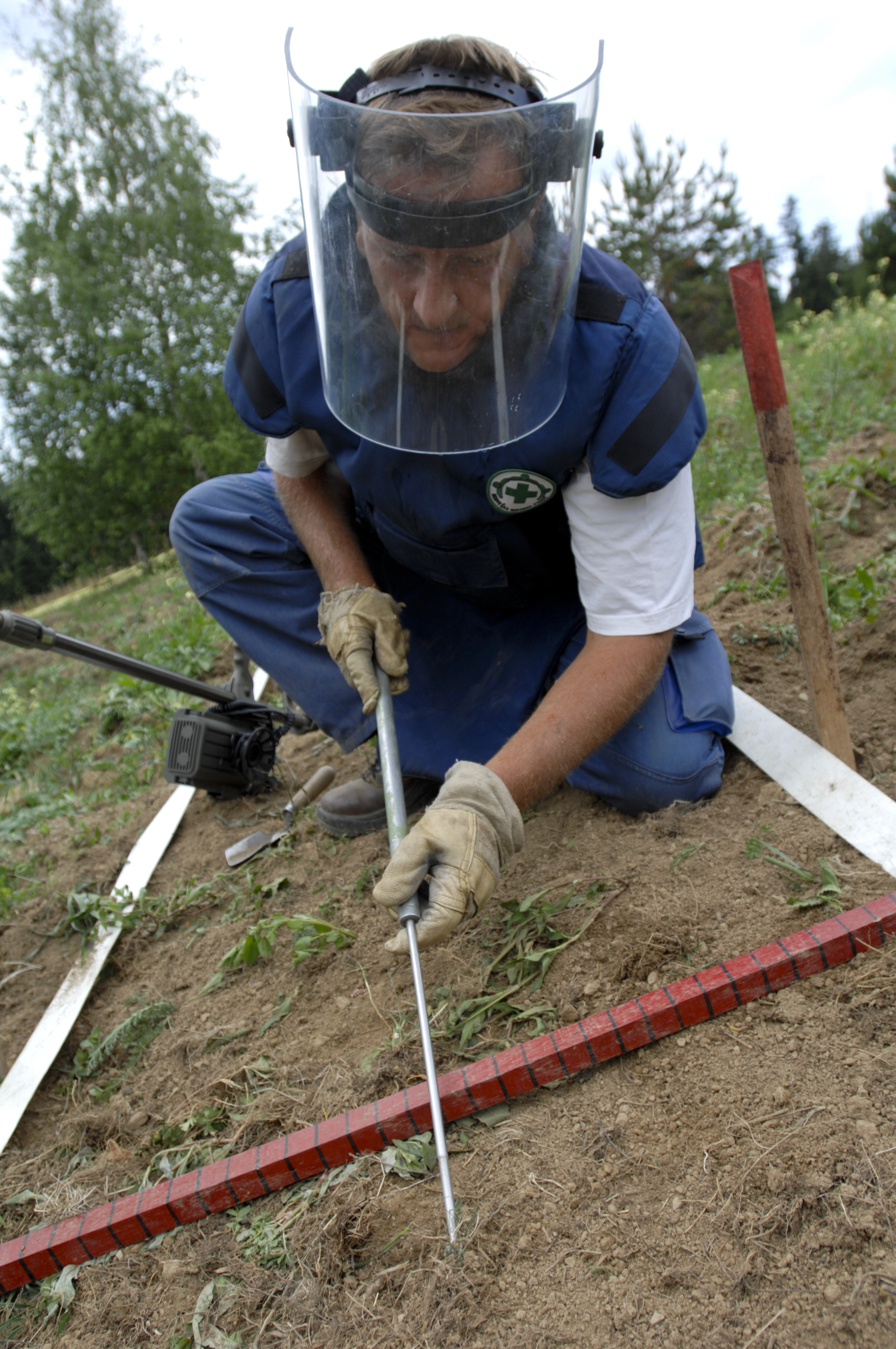 A deminer from Norwegian People's Aid locating mines by hand in Bosnia-Herzegovina.